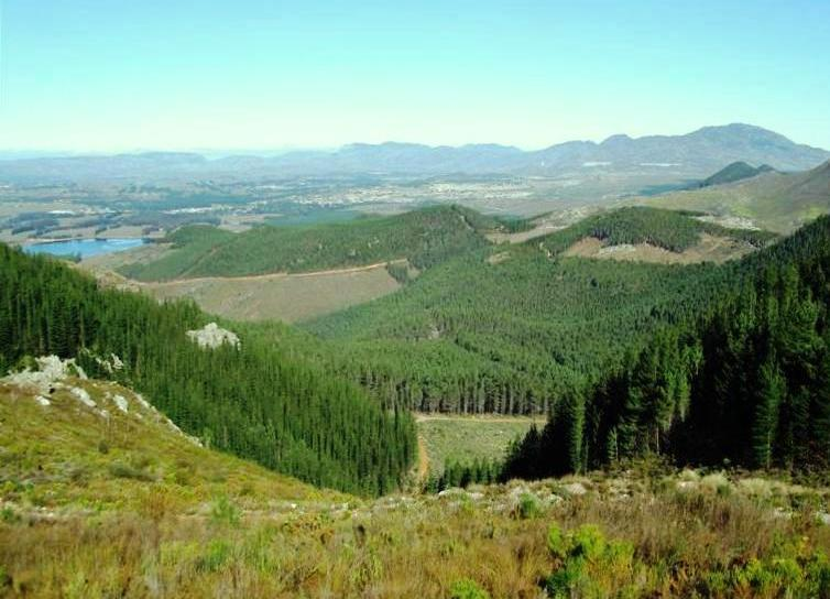 View over a section of the Elgin Valley in the Western Cape South Africa. Glen Elgin with town of Grabouw.